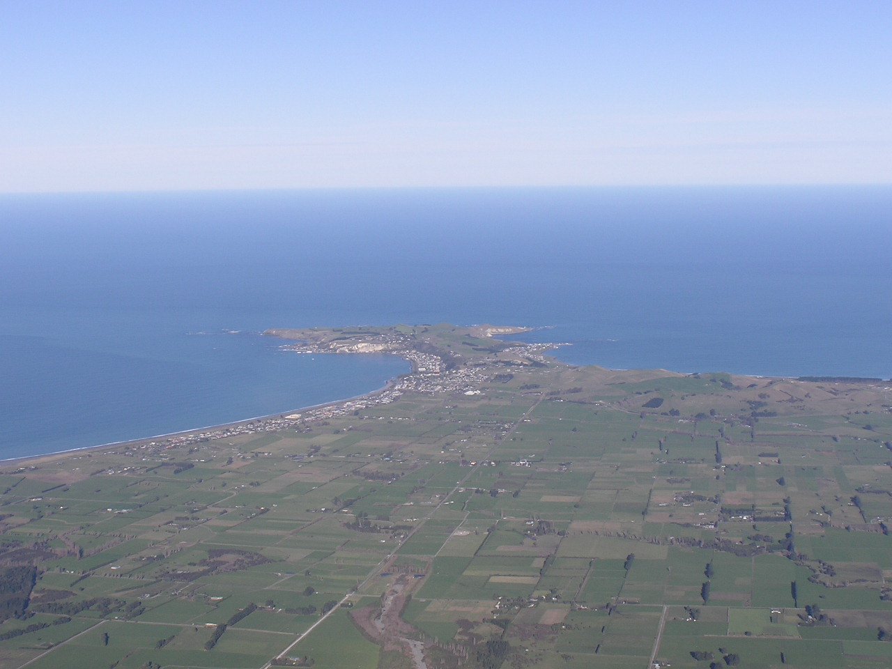 Kaikoura Peninsula seen from Mt. Fyffe